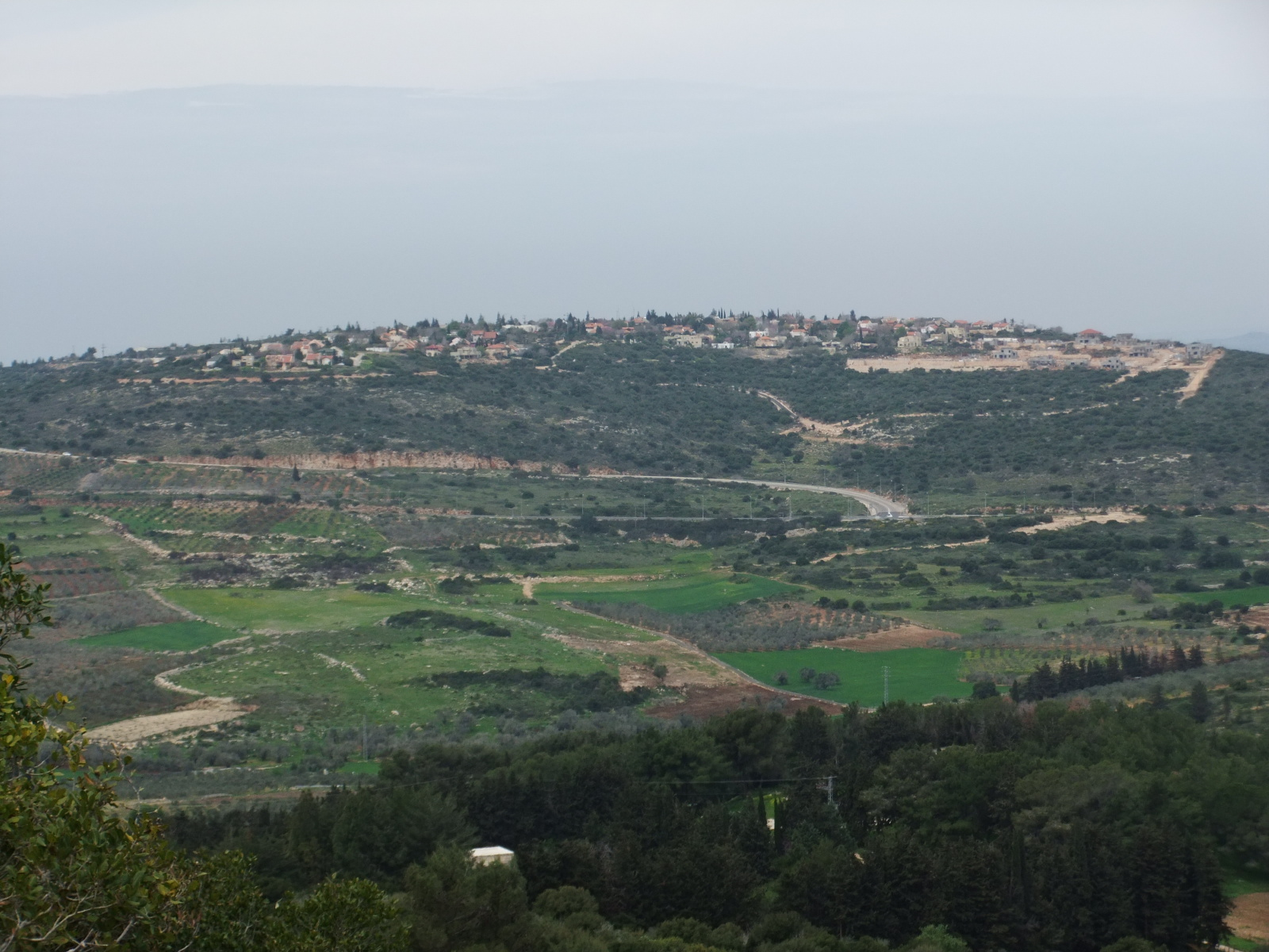 Koranit from mount Atsmon